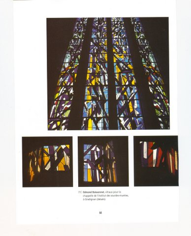 Edmond Boissonnet